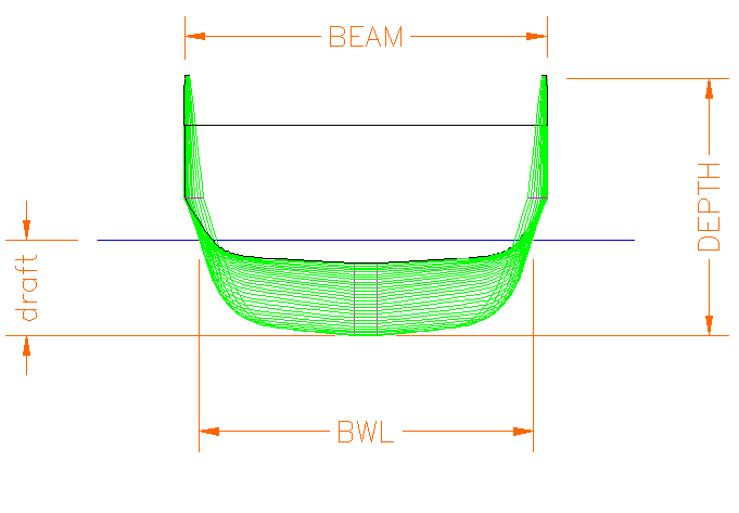 2D image of a hull showing the terms BWL, Beam, draft & Depth for Hull